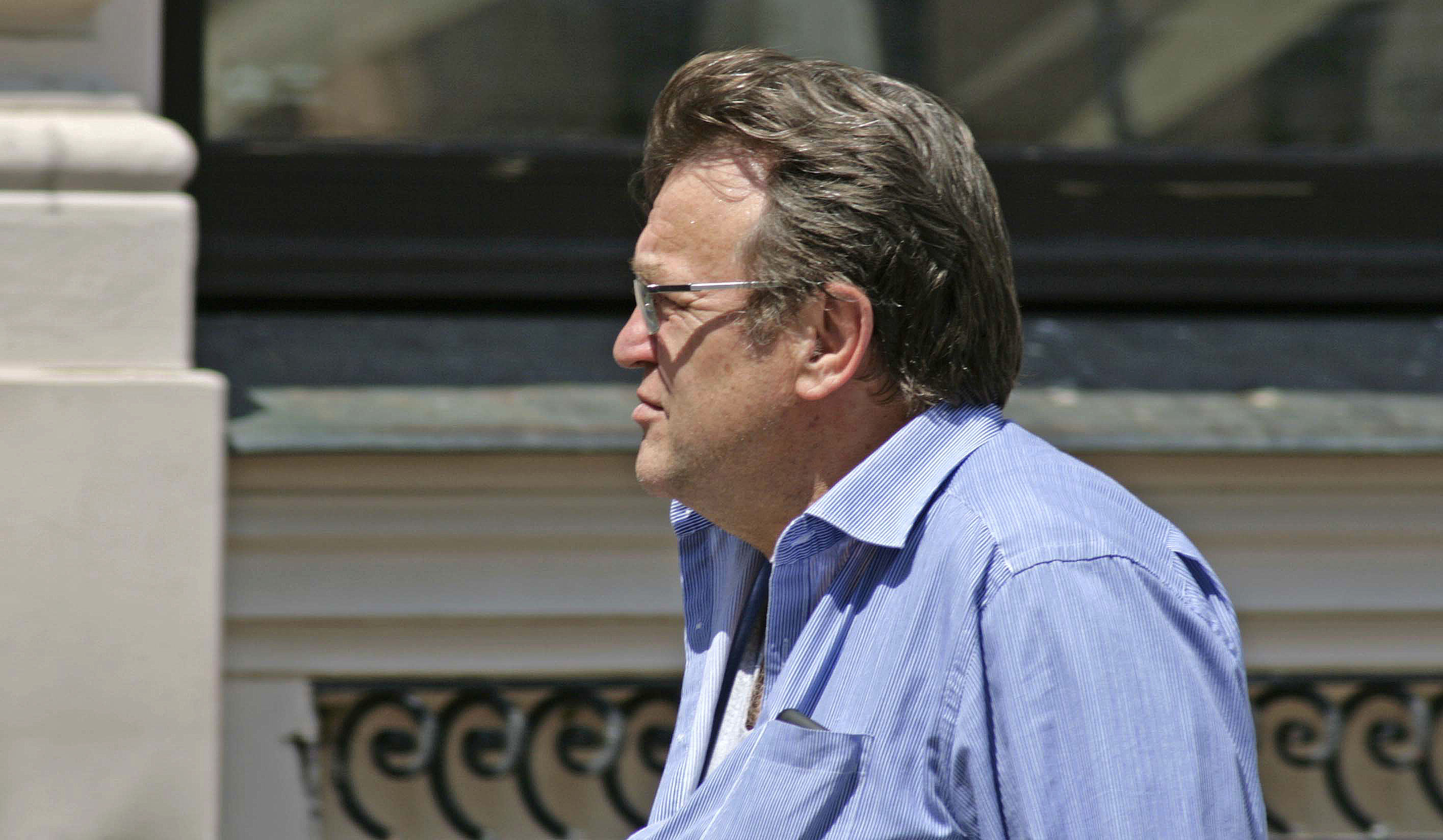 Denes Gulyas Opera singer - mid-June 2015